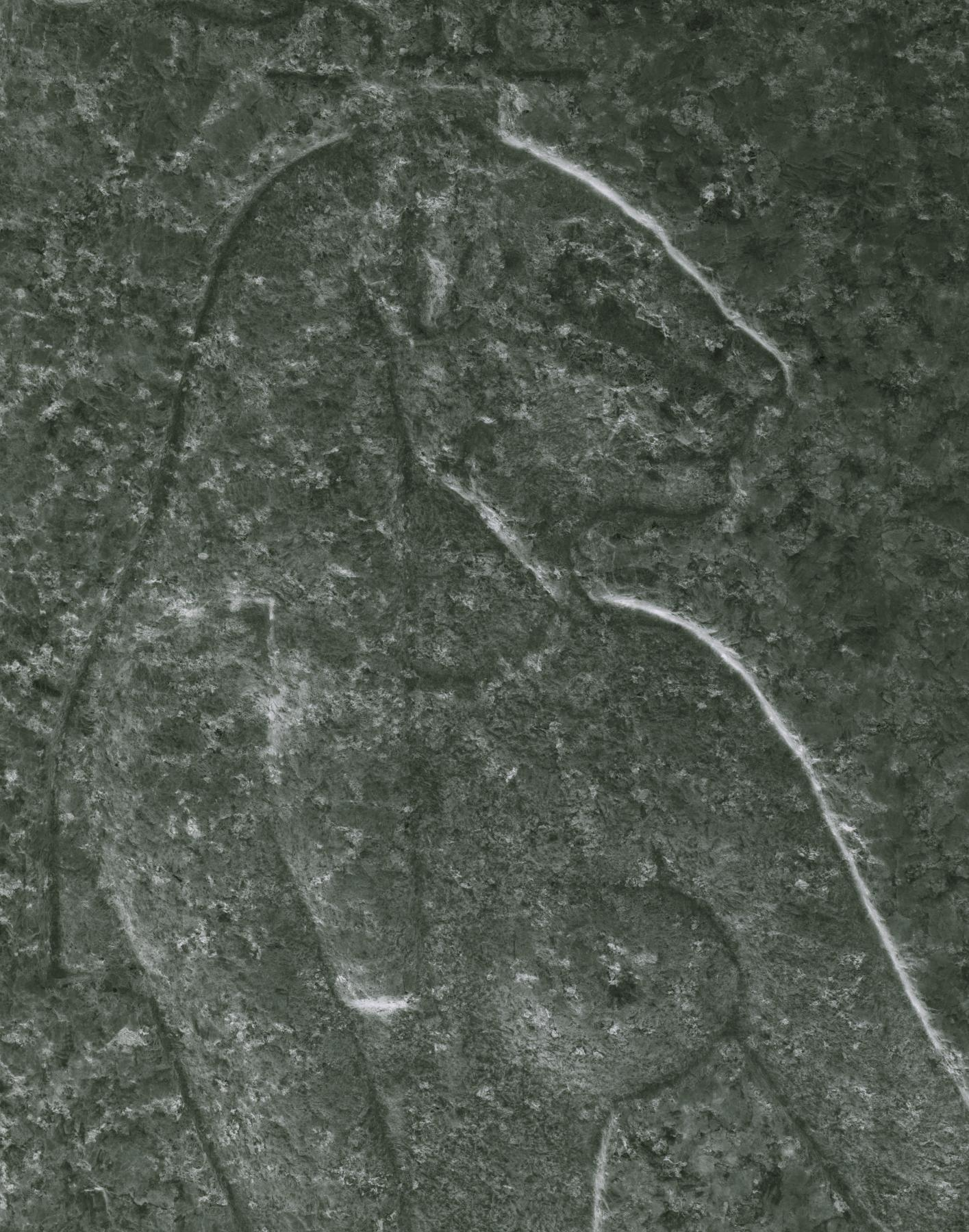 The patron deities of ancient Samannud, the war and air god Onuris-Shu and his lioness-headed mate, Mehyet, are shown enthroned on the outer face of this block. Originally, a king would have stood before them presenting offerings. Both gods hold an ankh (life symbol) and a scepter: his is the was scepter (symbolizing prosperity and dominion), hers is a papyrus scepter. On the inner face of the block, a king presents a floral offering to the divine couple, but only part of Onuris-Shu's figure remains.